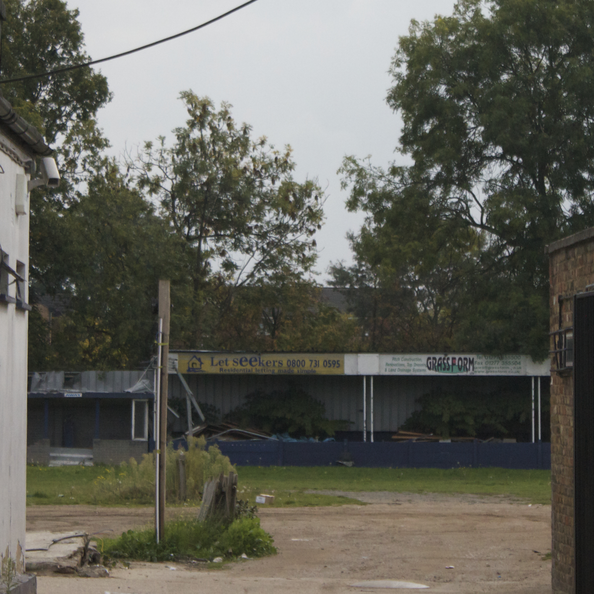 The derelict ground of Leyton FC